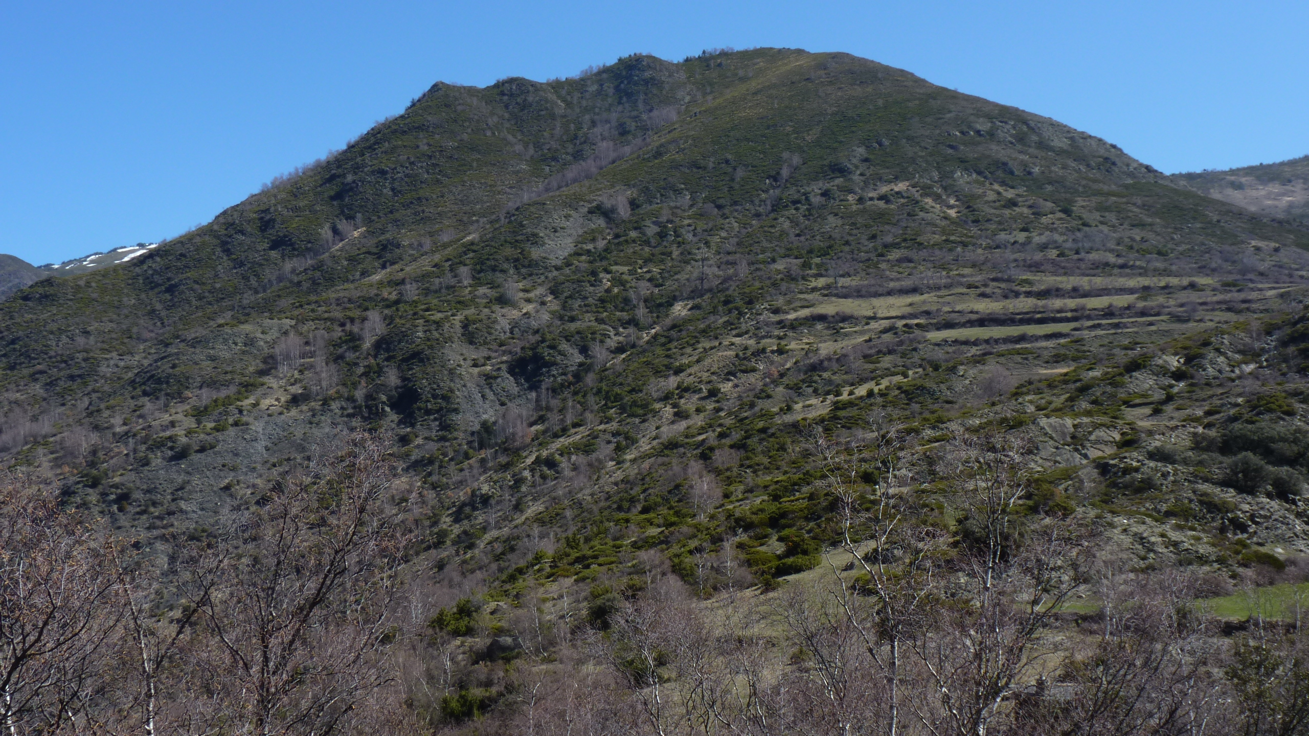 Roc Bataller